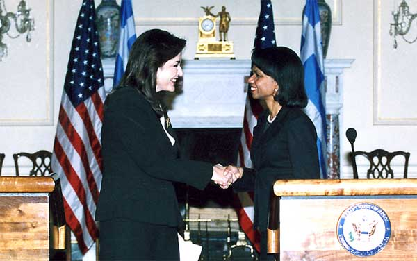 Secretary Rice met with Greek Minister of Foreign Affairs Theodora Bakoyannis.